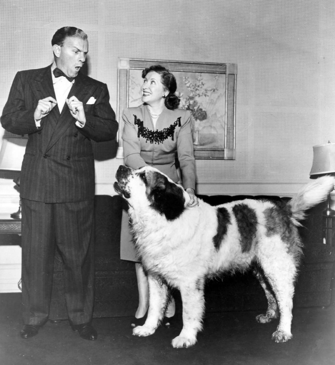 Photo of George Burns and Gracie Allen from their radio show.